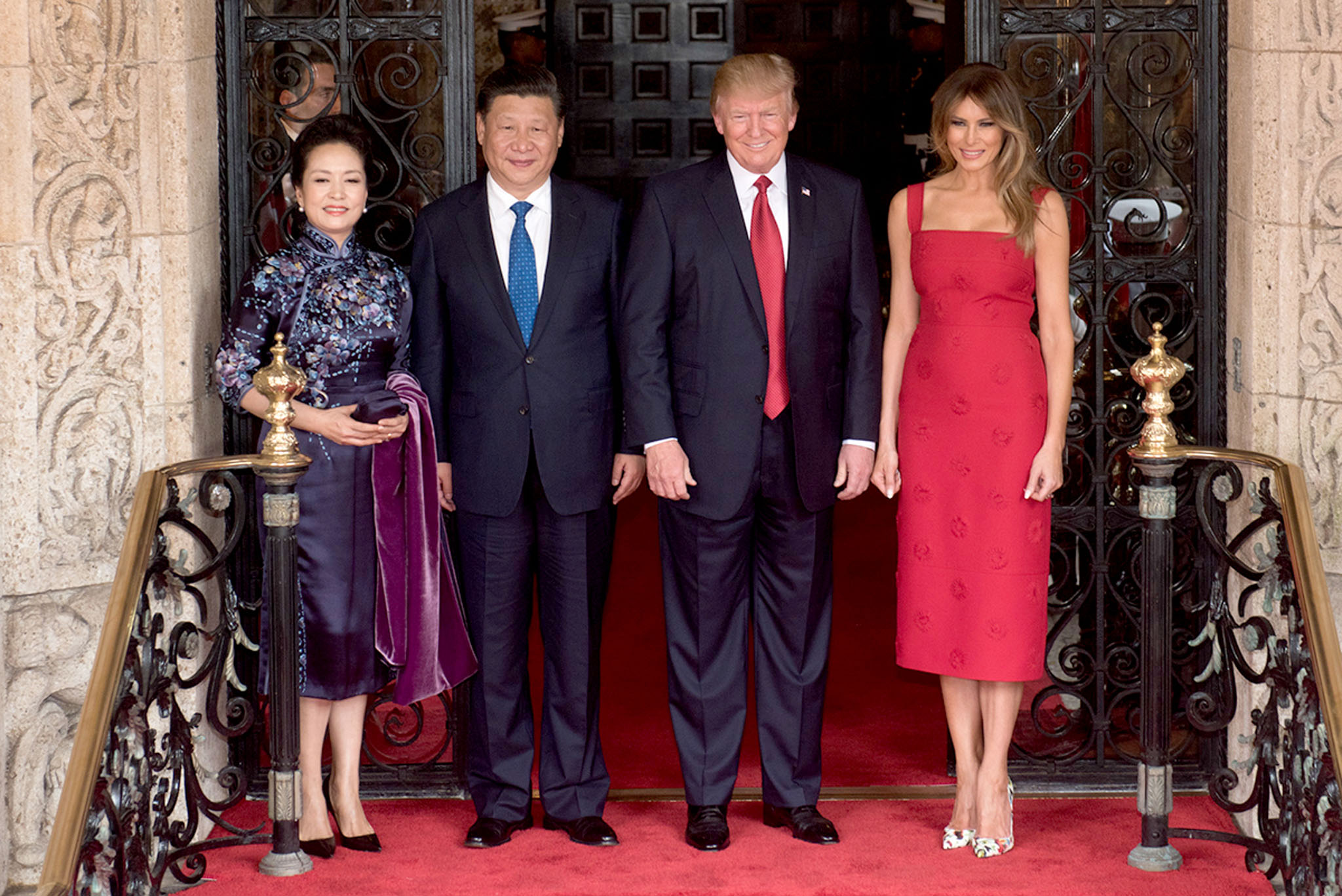 President Donald Trump and First Lady Melania Trump pose for a photo with Chinese President Xi Jingping and his wife, Mrs. Peng Liyuan, Thursday, April 6, 2017, at the entrance of Mar-a-Lago in Palm Beach, FL (Official White Photo by D. Myles Cullen). Melania Trump stepped out in a red, wide-strap Valentino midi dress with daisy appliqués[1]